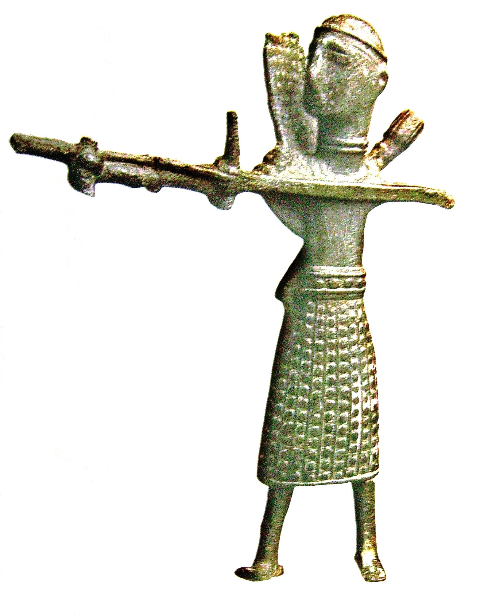 Sardinia - Italy - Bronzetto sardo by Shardan --Shardan 16:33, 14 September 2007 (UTC)